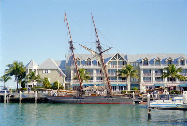 Local call number: DM5661 Title: Replica of the slave ship Amistad docked at Key West General note: The Freedom Schooner Amistad is a reconstruction of the historic coastal cargo schooner La Amistad that in 1839 transported 53 kidnapped West Africans. The captives revolted and seized the ship, but were eventually recaptured off the coast of New England where abolitionists took up their cause for freedom. Former President John Quincy Adams successfully argued before the U.S. Supreme Court on behalf of the captives in the first human rights case to be argued in the American court system on behalf of Africans. In 1841, the 35 surviving Africans were returned to Africa. Date: January 11, 2003 Physical descrip: 1 photonegative - col. - 35 mm. Series Title: Dale M. McDonald Collection Repository: State Library and Archives of Florida, 500 S. Bronough St., Tallahassee, FL 32399-0250 USA. Contact: 850.245.6700. Persistent URL